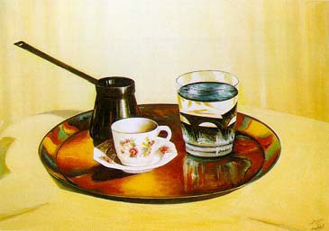 It is traditional to drink strong coffee after a meal in Libya, usually served with something sweet.